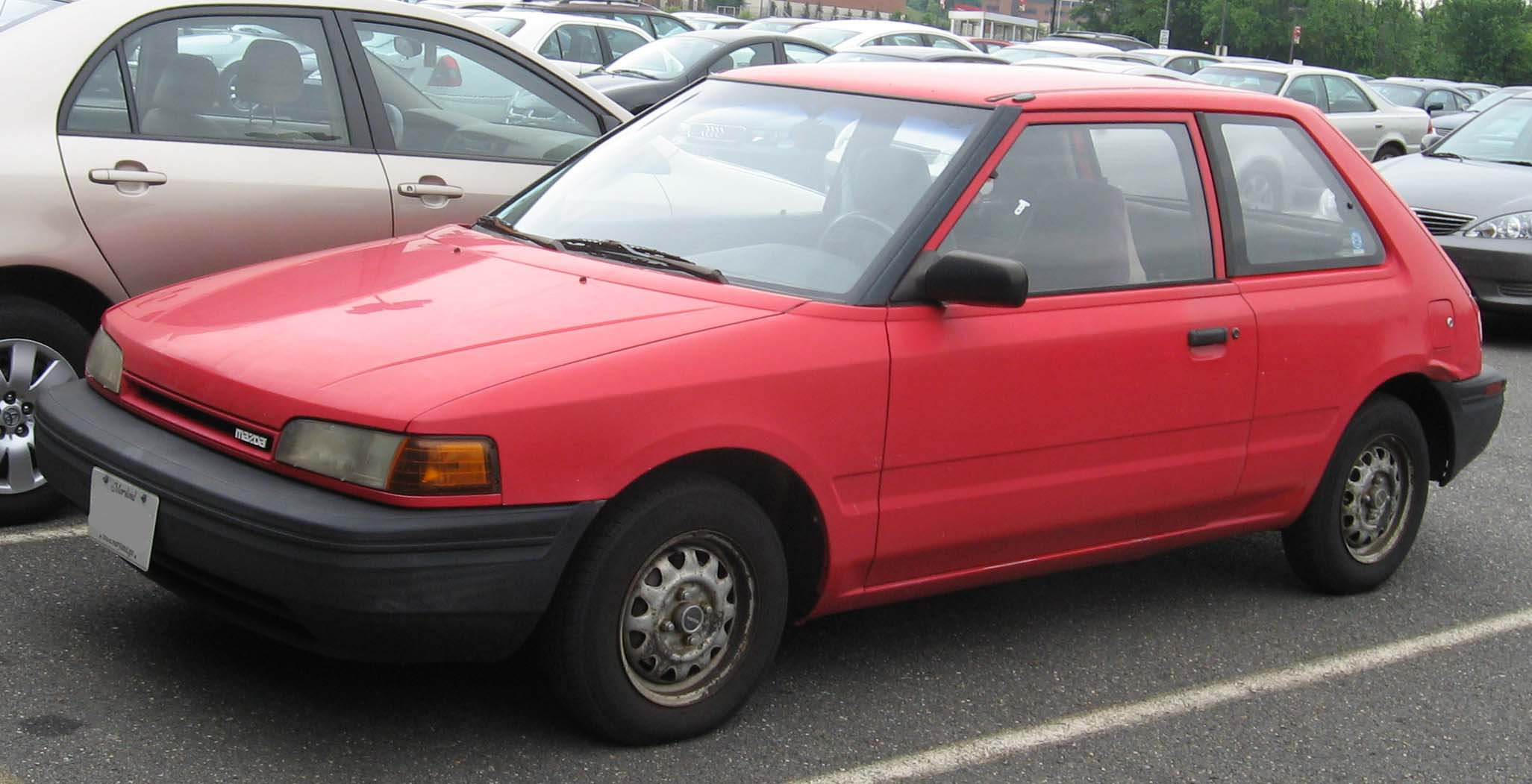 1990-1992 Mazda 323 photographed in College Park, Maryland, USA.